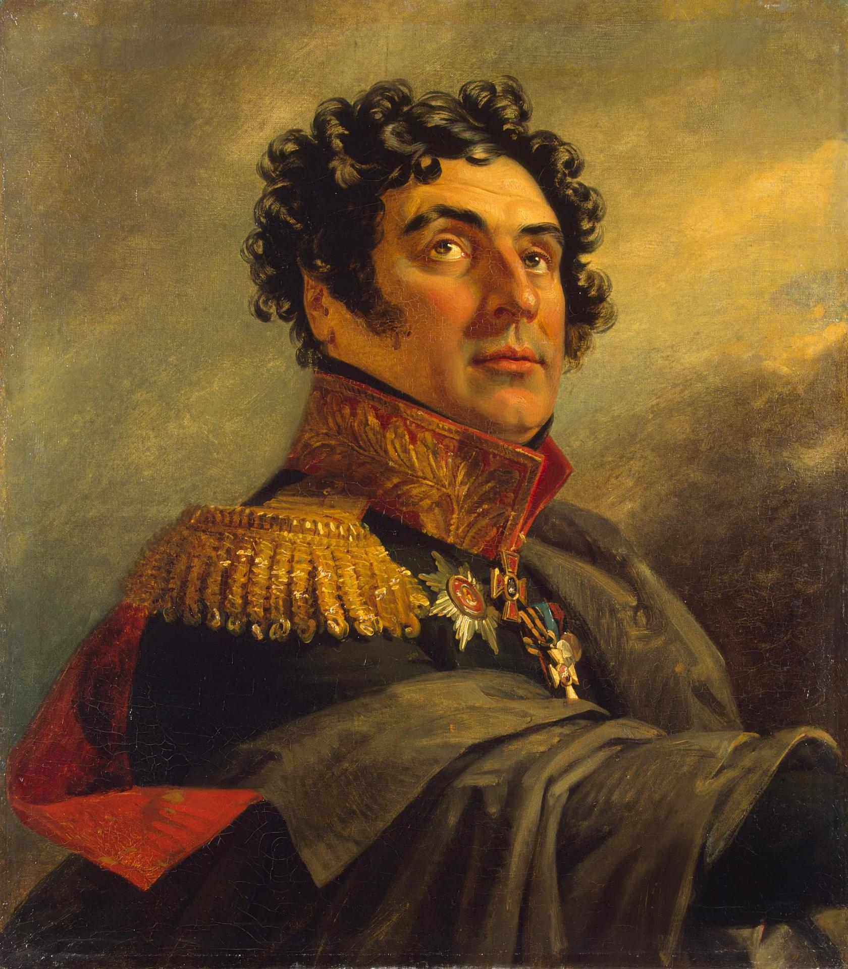 Pyotr_Ivanovich Ivelich (1772 – after 1816) russian general